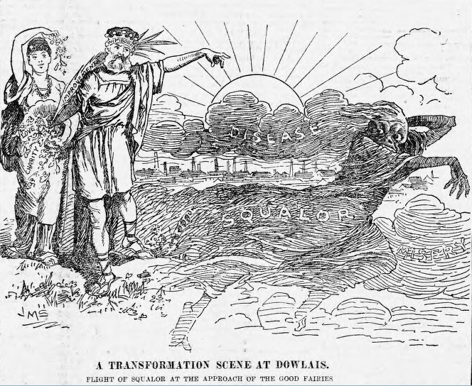 Political cartoon by JM Staniforth: Lord and Lady Wimborne (Ivor Guest, 1st Baron Wimborne and Lady Cornelia Henrietta Maria Spencer-Churchill) are depicted as "Good Fairies" banishing squalor through their charitable work in Dowlais, Wales.